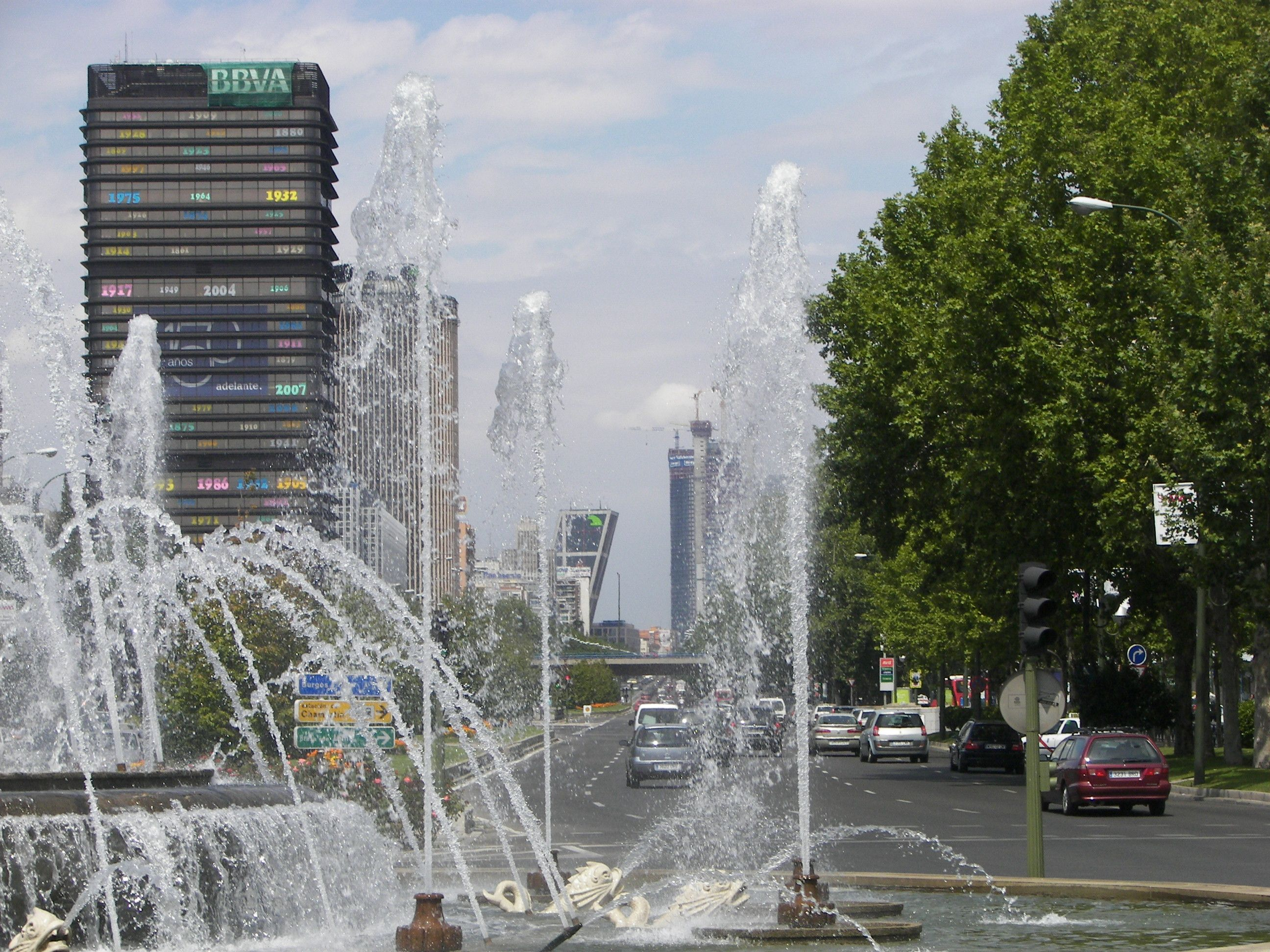 View of Paseo de la Castellana (avenue) in Madrid (Spain) from Plaza de San Juan de la Cruz (square). Foreground: Fuente de los Nuevos Ministerios (fountain), designed by Carles Buïgas Sans (1898–1979) and inaugurated in 1970. At the left, BBVA Tower.